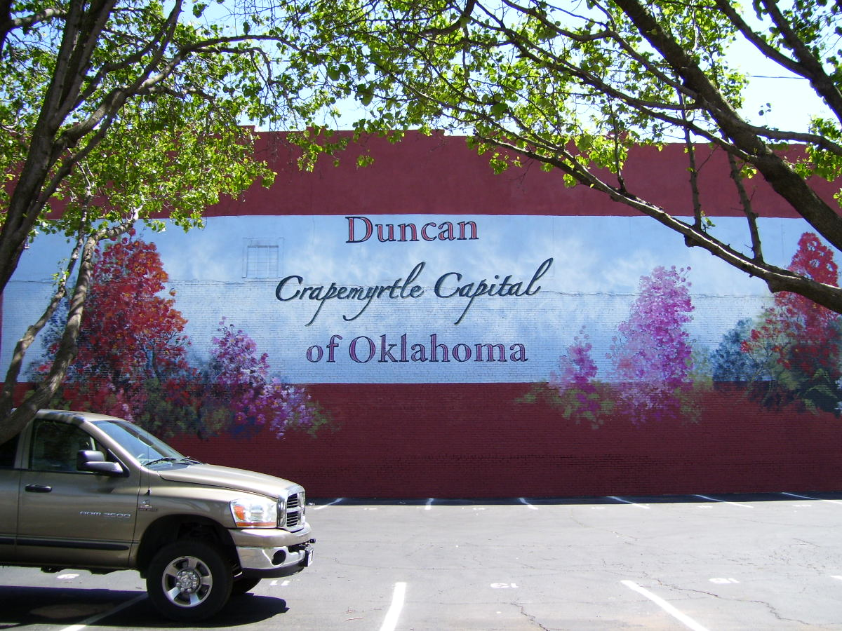 Painting on the Palace Theatre Building in Downtown Duncan